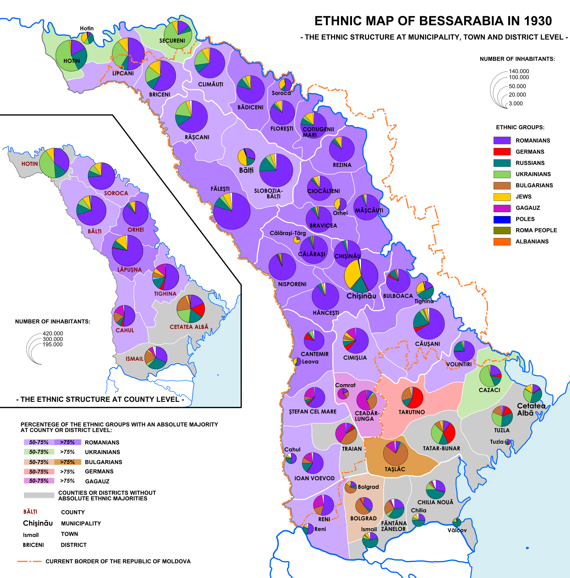 Etnic map of Bessarabia in 1930.